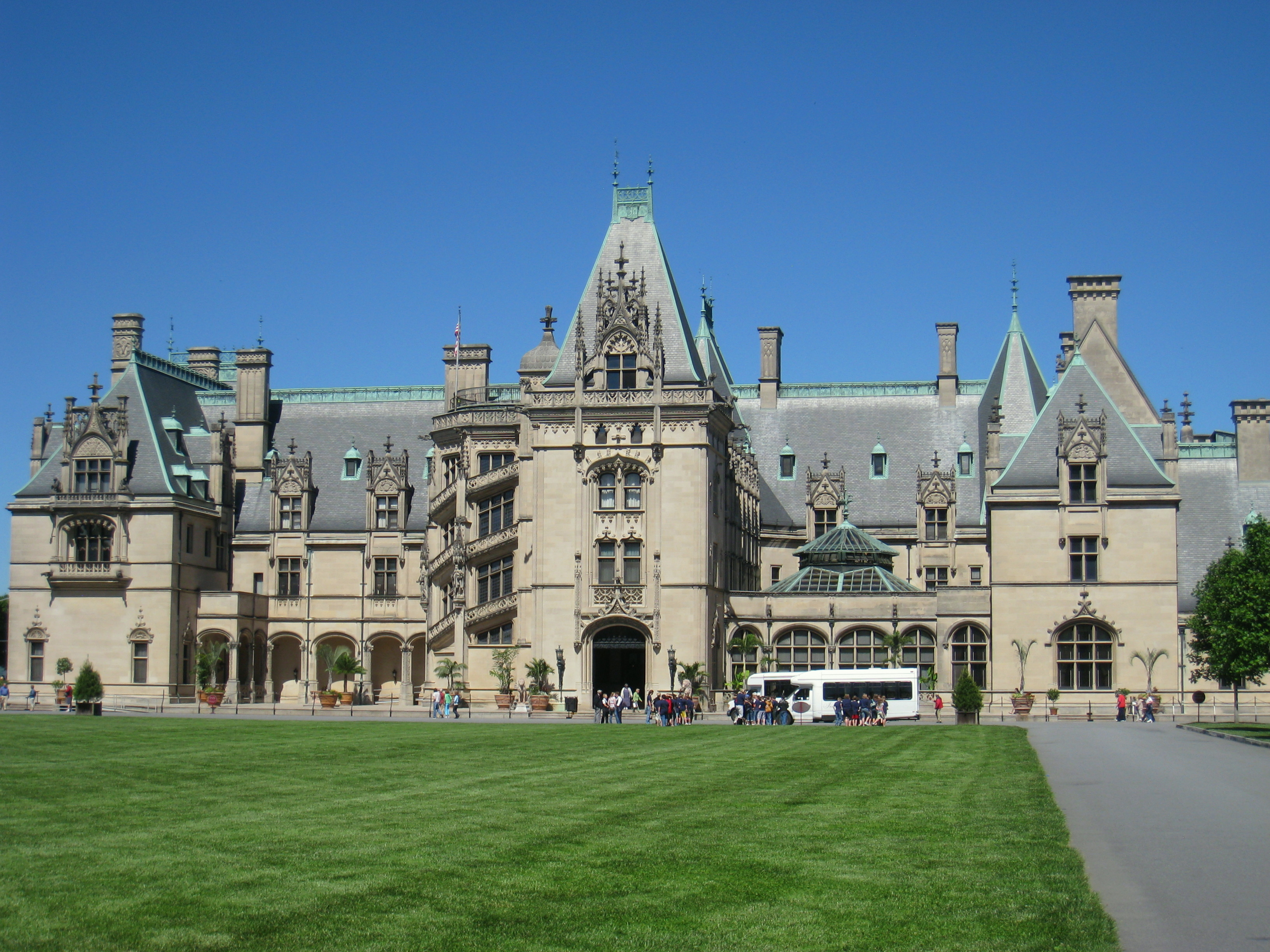 Front facade of Biltmore Estate, Asheville, North Carolina, USA.